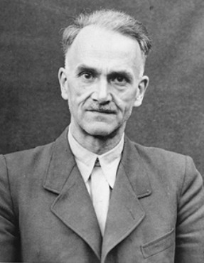 Portrait of Oskar Schroeder as a defendant in the Medical Case Trial at Nuremberg.